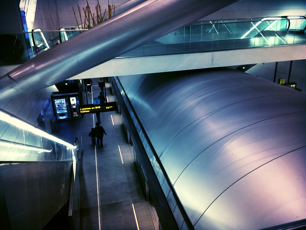 bs due scura 2